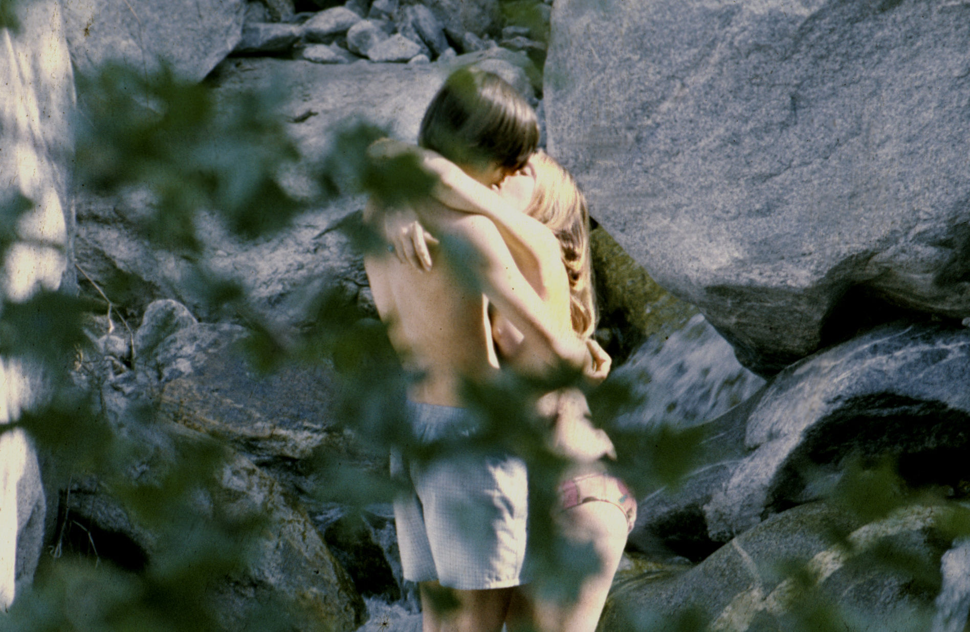 Taken in canyon park in Palm Springs, California during a spring break "hippie" festival. The setting was very public with over 1,000 students in the area, although the photo makes it seem like they're alone.